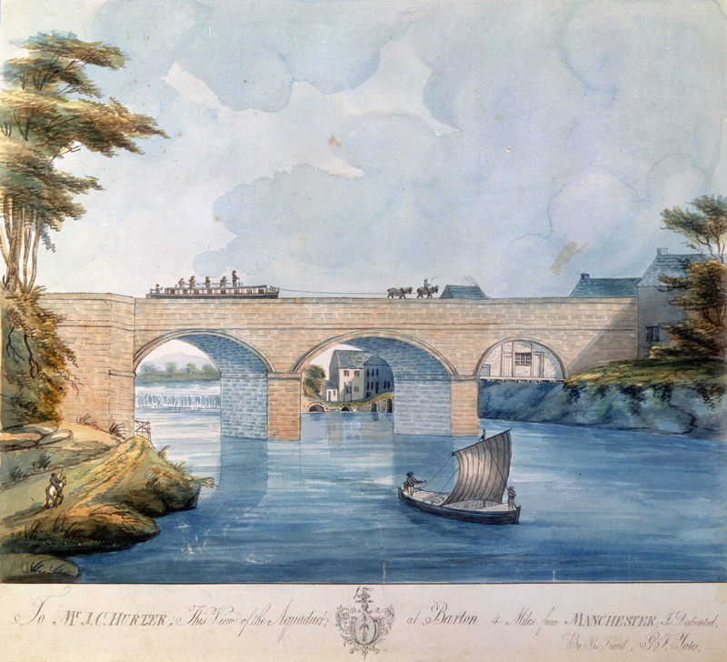 Watercolour, pen and ink image of James Brindley's Barton Aqueduct circa 1793 carrying the Bridgewater Canal over the River Irwell. Horsedrawn barge moving across the aqueduct, small river barge beneath